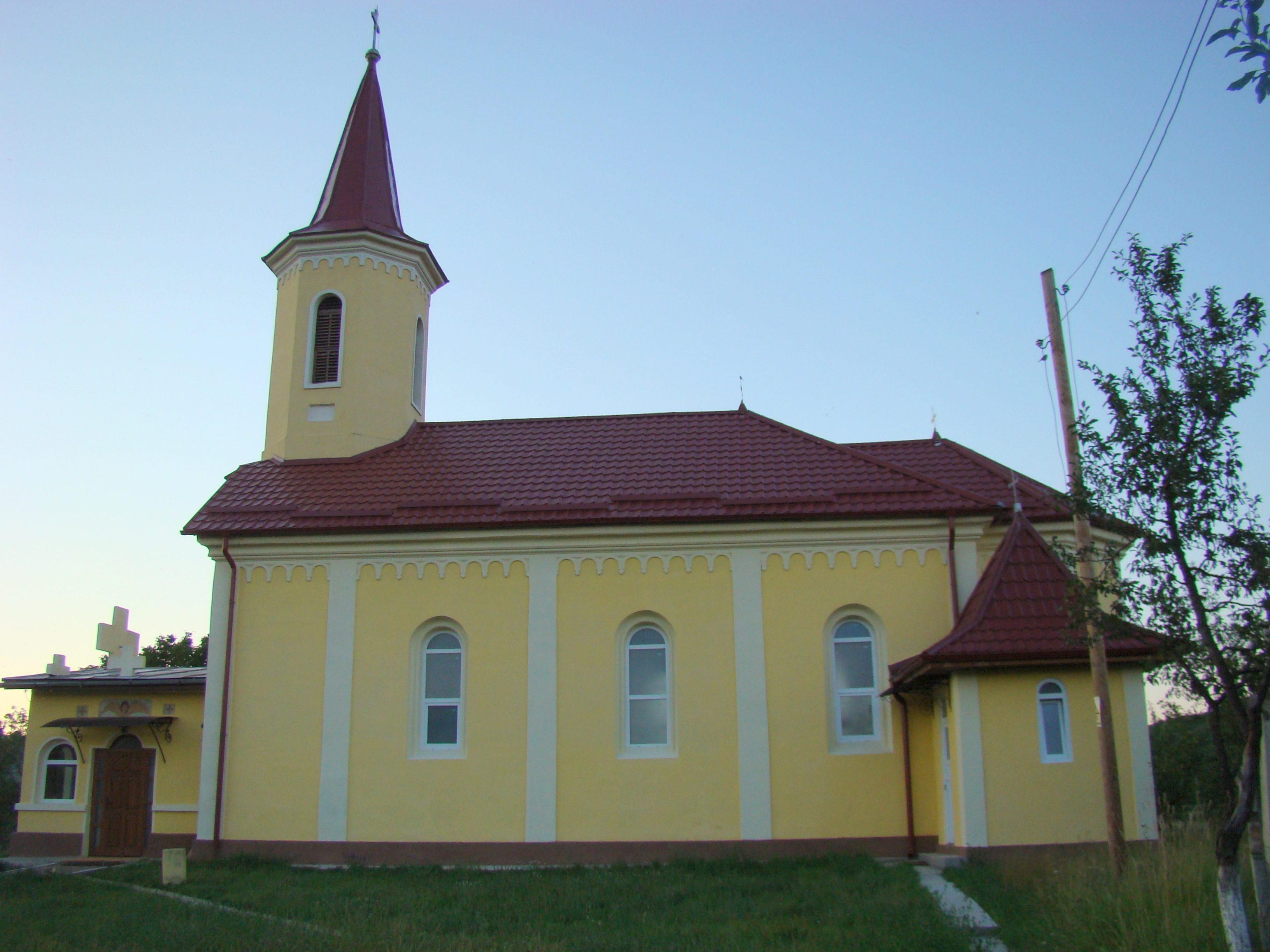 Orthodox church in Sucutard, Cluj county, Romania